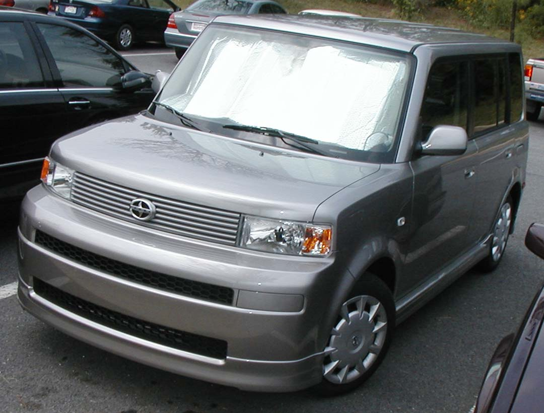 2006 Scion xB photographed in USA.